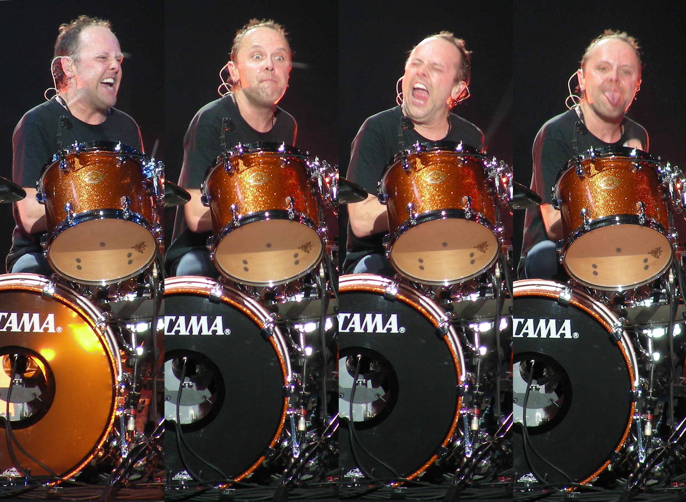 Collage of four pictures of Lars Ulrich, drummer of Metallica, concert on 2009-03-30 (Death Magnetic Tour, Ahoy Rotterdam)